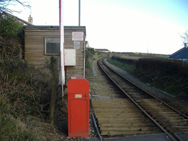 Railway crossing point Ballasalla. Looking North about quarter mile from Ballasalla station, the lane that crosses here leads to Ballahick farm.